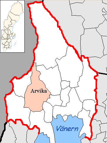 Arvika Municipality in Värmland County Designd by me, based on Image:Värmland County.png